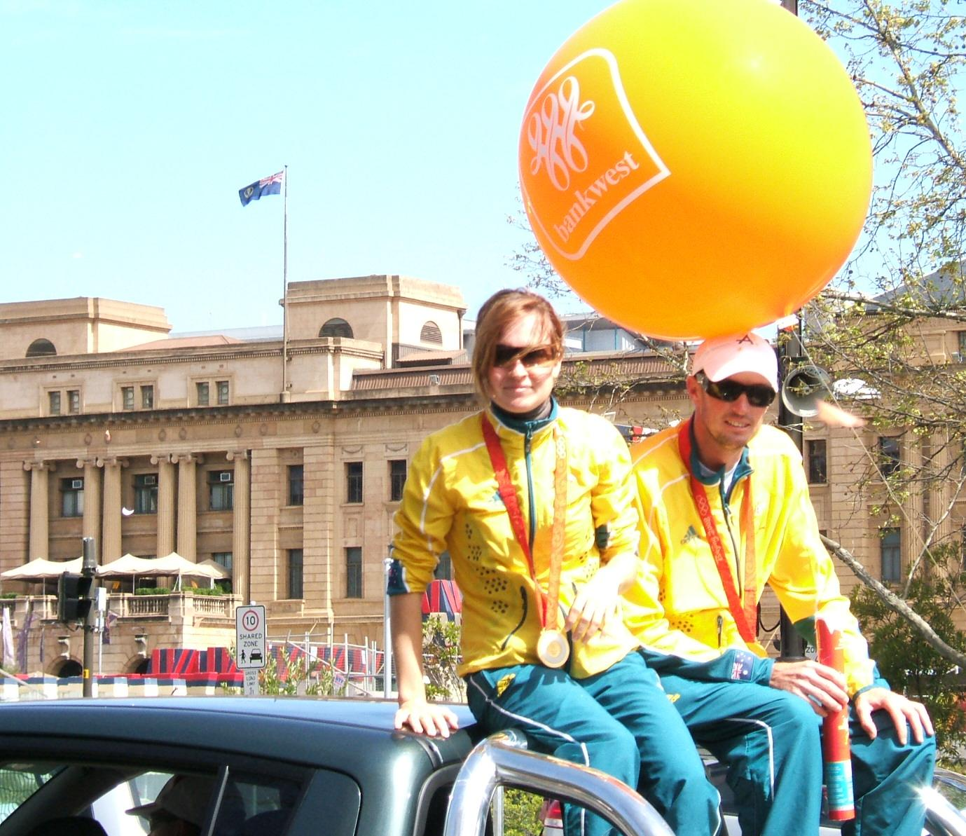 Elise Rechichi and Nathan Wilmot at the 2008 Olympic homecoming parade in Adelaide